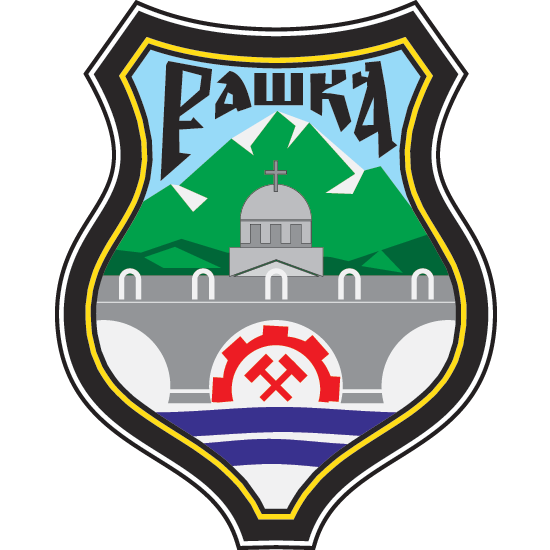 Small Coat of arms of Raška.